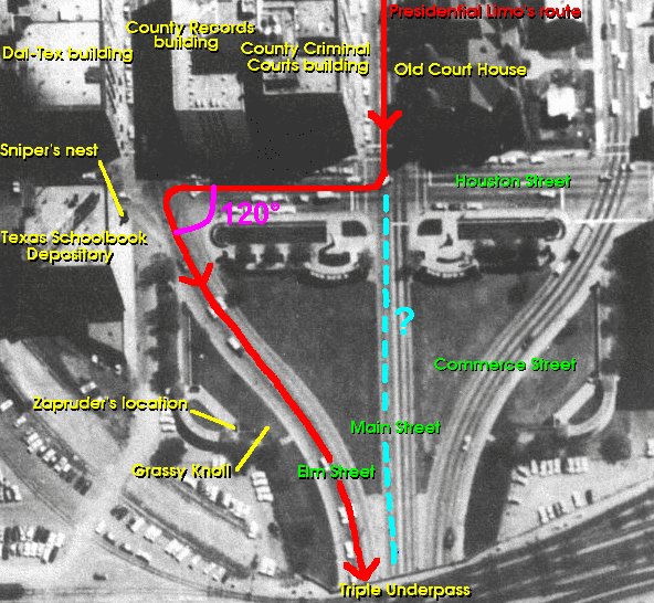 Photo of Dealey Plaza (annotated), from Warren Commission report. Modificated file: added alternative track (light blue lines) by user Gothic2